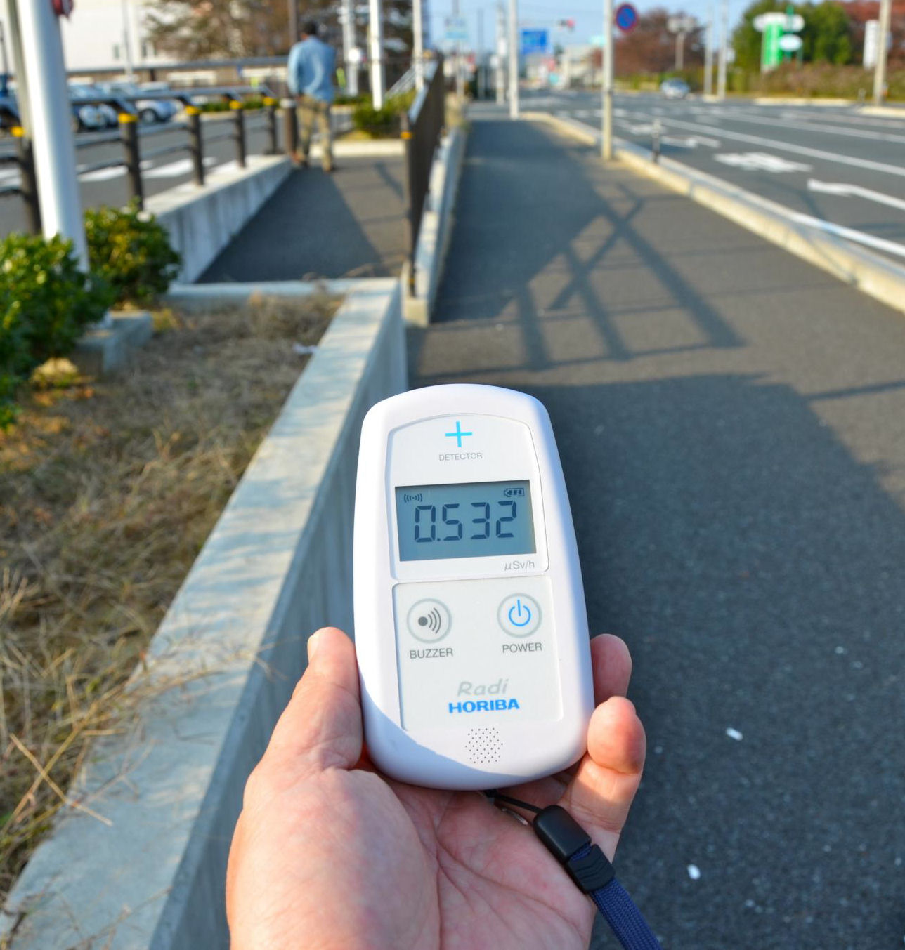 Radiation monitor showing radiation at Minamisoma, Fukushima Prefecture, Japan